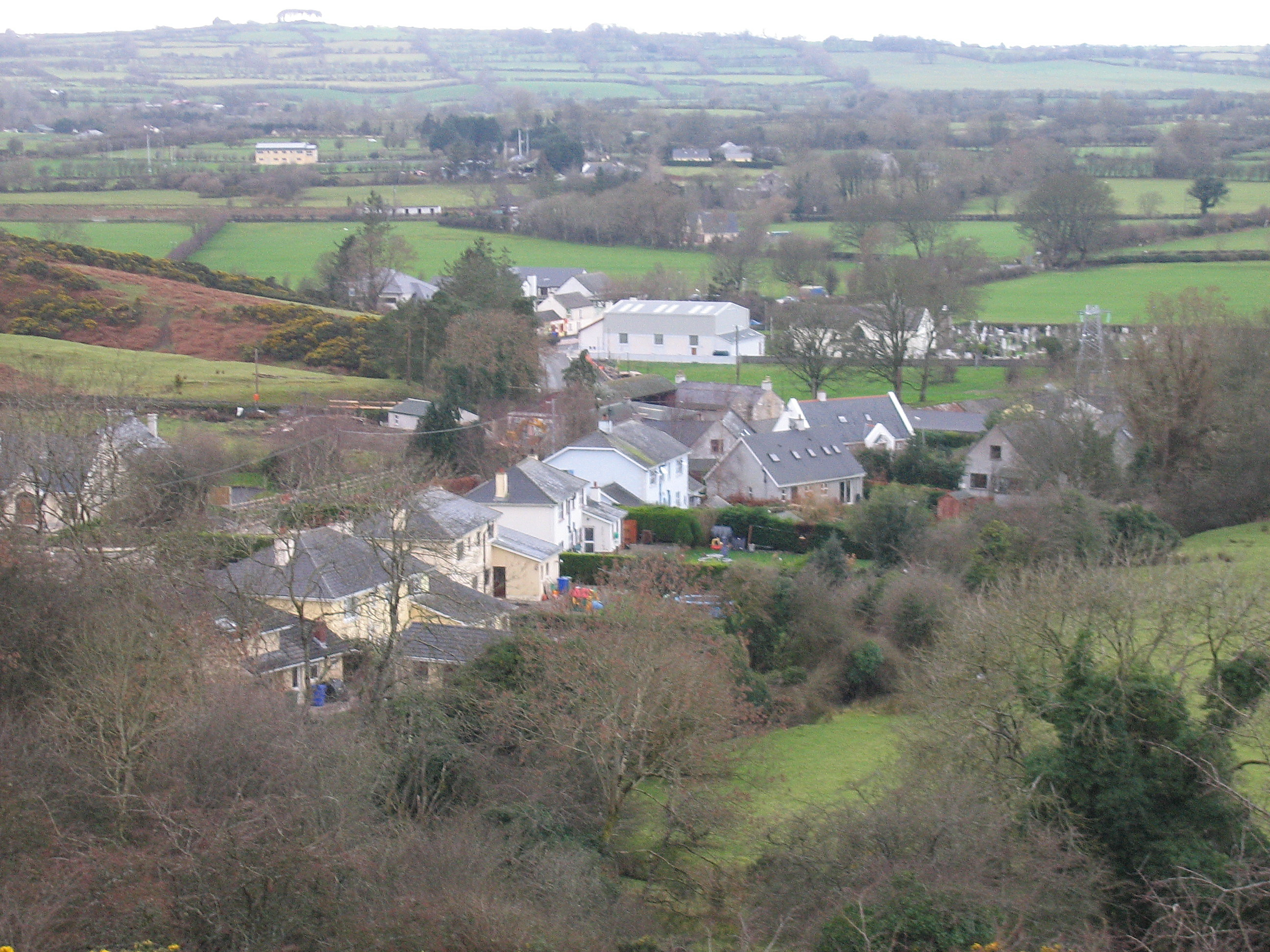 Hollywood from the hill above, looking west